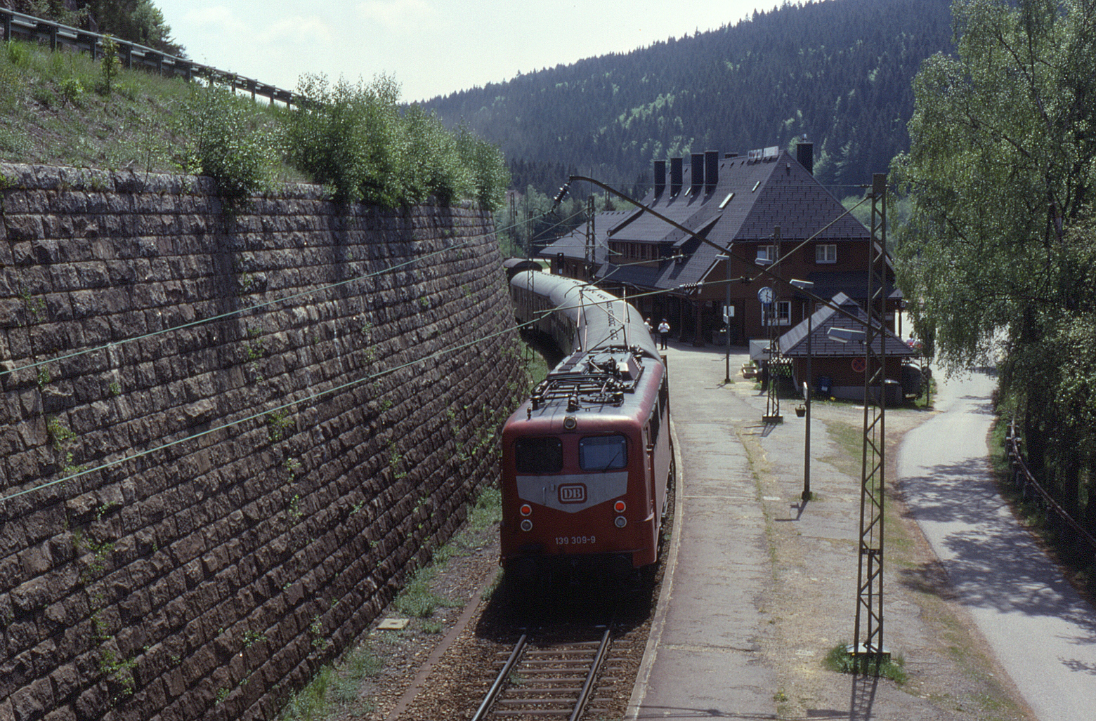 139 309 seen at Seebrugg on train E 3628, 12:38 Seebrugg to Freiburg (Breisgau) Hbf on 22 May 1992.